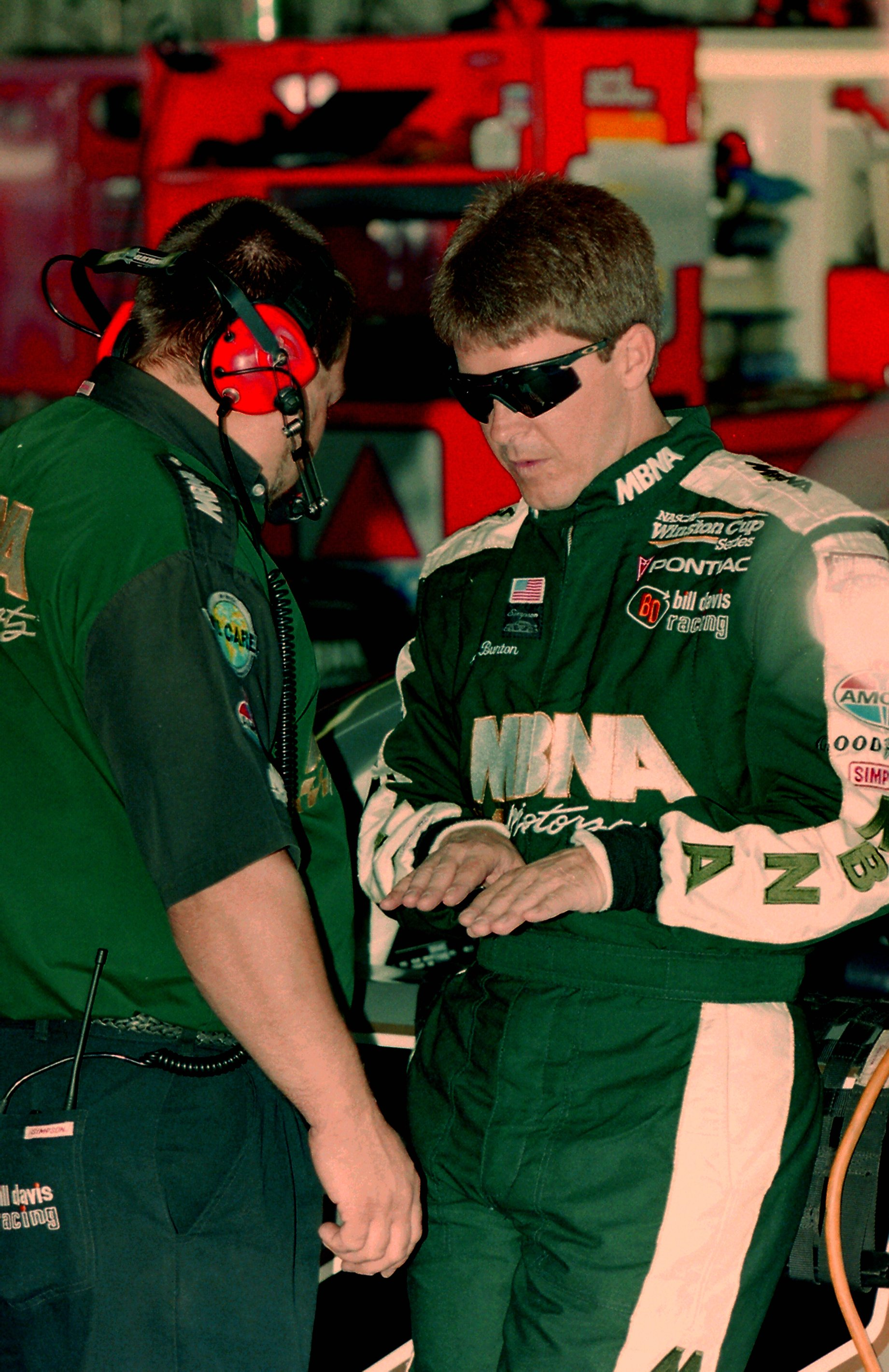 NASCAR Winston Cup Series driver Ward Burton, 1997.